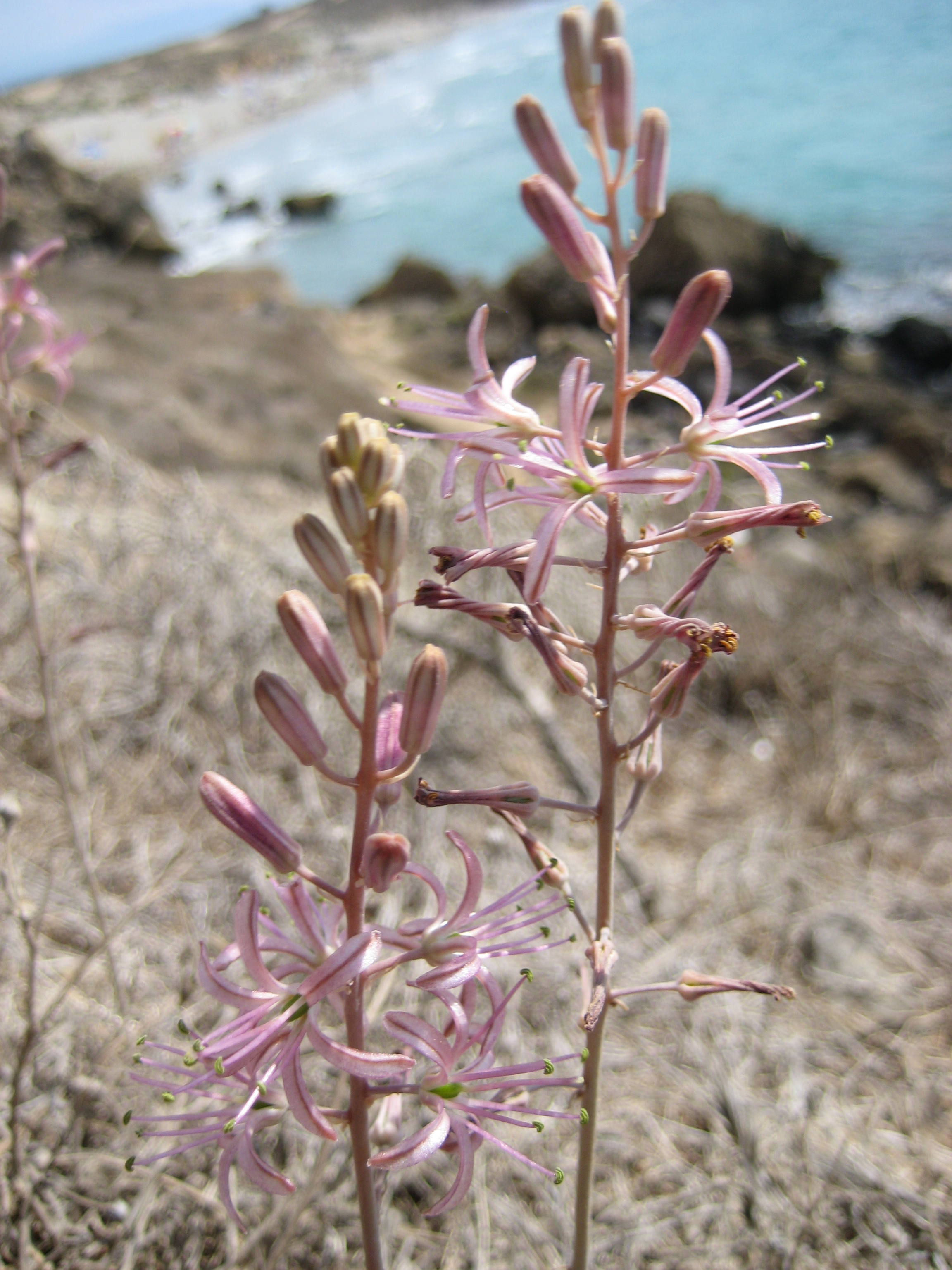 drimia undulata flower urginea undulata flower scilla undulata flower